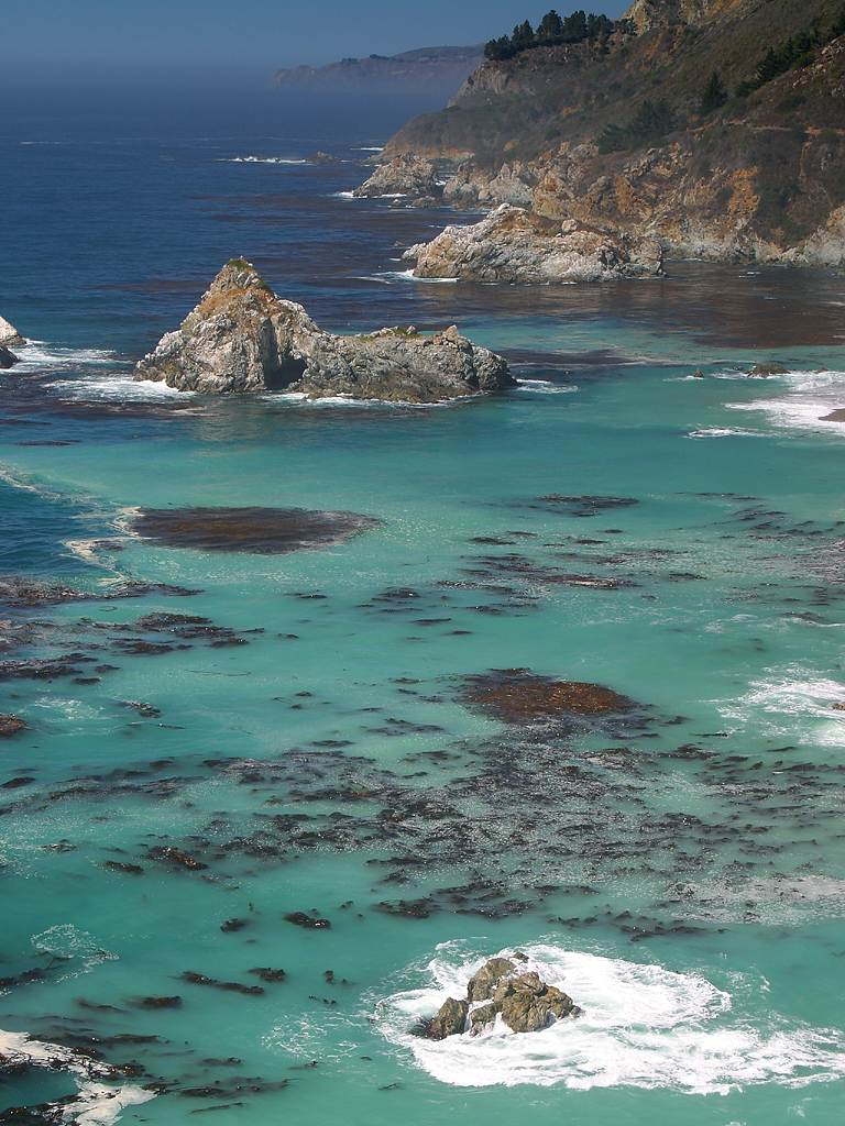 From PD